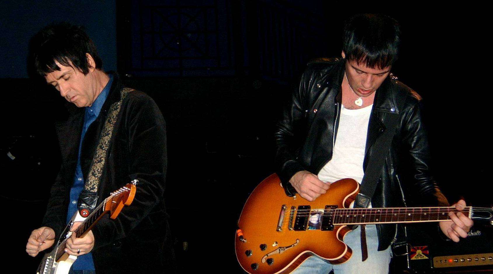 British guitarists Johnny Marr and Ryan Jarman perform as part of The Cribs at the 9:30 Club in Washington, D.C.